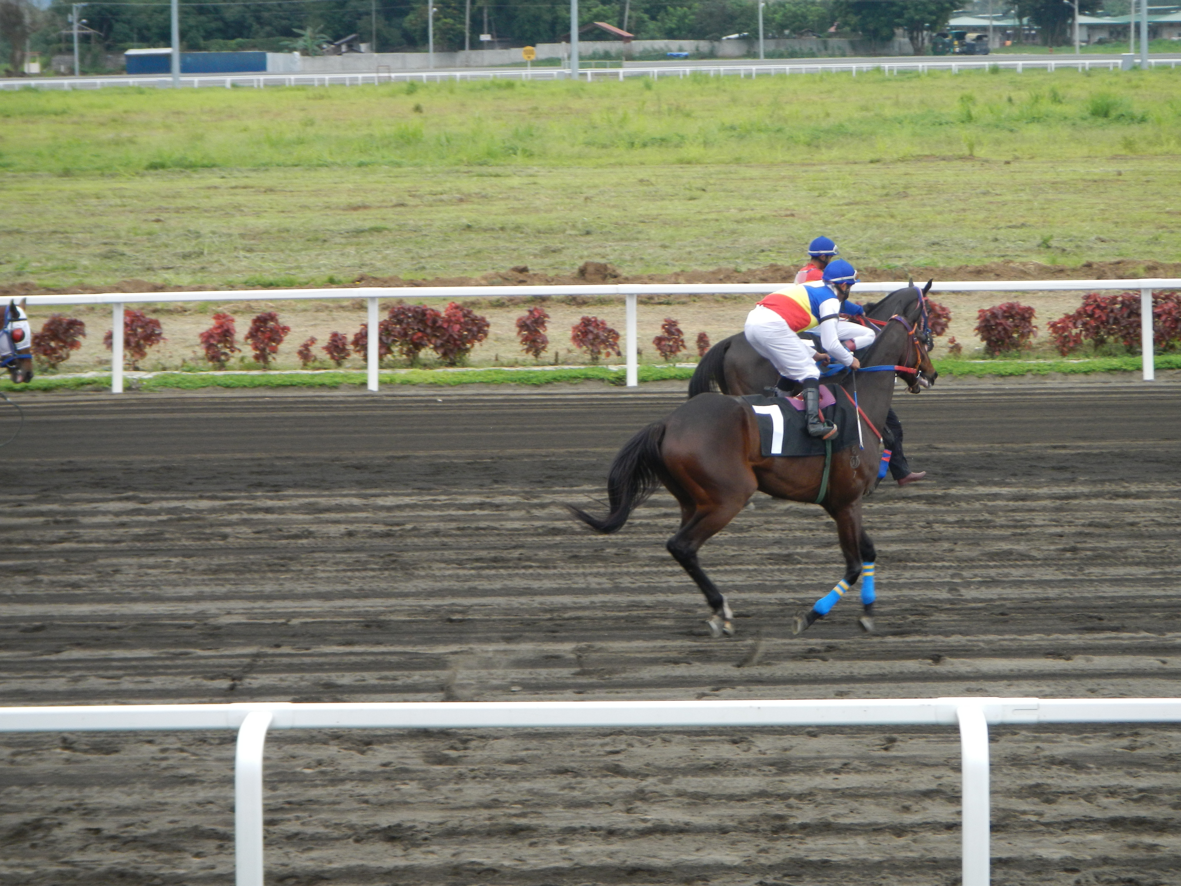 Metro Manila Turf Club Race Track (List of sports venues in Metro Manila[1]) -- Race track[2] -- Malvar, Batangas [3] --Website Official FB [4] World-class racetrack sets opening Metro Turf Club, Inc. Race Track, located on the boundary of Malvar town and Tanauan City, opened in February, 2013 with world-class facilities with majestic Mount Makiling [5] serving as backdrop is the third racetrack in the country after the San Lazaro Leisure Club in Carmona and the Santa Ana track in Naic, both in Cavite - constructed on a 45-hectare lot by renowned Singaporean racetrack builder K.K. Kumar. The racetrack is 1,525-meter long and has 4 chutes. Dr. Norberto Quisumbing, owns Metro Turf. 46 lighting posts—39 around the oval and 7 attached to the grandstand with General Electric technology and United Tote, gaming totalizator, with wide-screen LED televisions - Metro Turf can be accessed through the main entrance at the President J.P. Laurel Highway in Malvar. New racetrack to open in Batangas January 19, 2013 -- Malvar, Batangas [6] is a second class municipality in the Province of Batangas[7], Philippines. As of 2009, the population of Malvar was 41,270 and the total number of households was 8,678. The municipality was named after General Miguel Malvar[8], the last Filipino General to surrender to the American Government in the Philippines in 1902.[9] Geographical location: Batangas, Region 4, Philippines, Asia geographical coordinates: 14° 2' 41" North, 121° 9' 31" East [10] Coordinates: 14°1'55"N 121°8'42"E